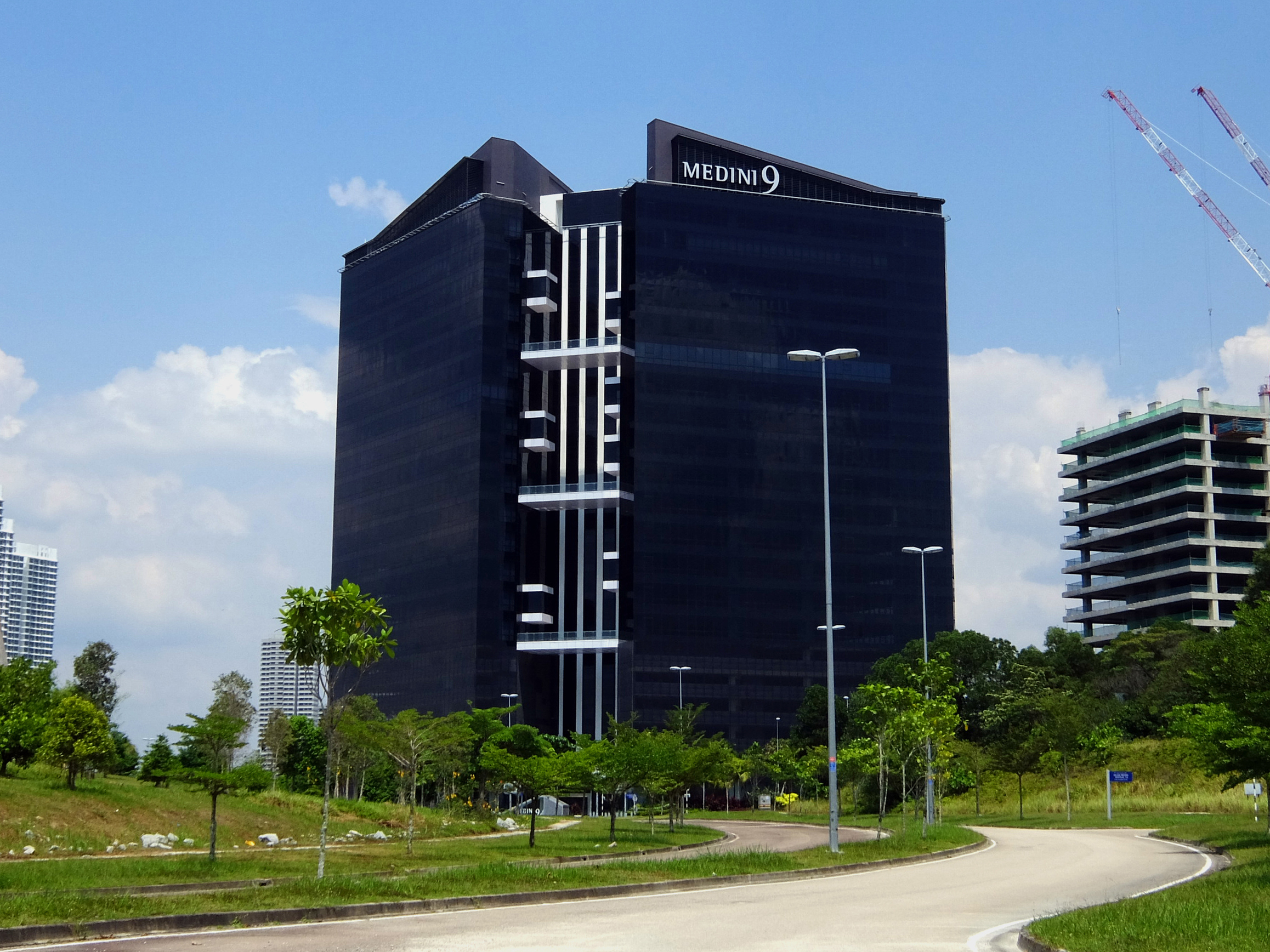 Medini 9, Medini Iskandar, Iskandar Puteri, Johor Bahru, Johor, Malaysia